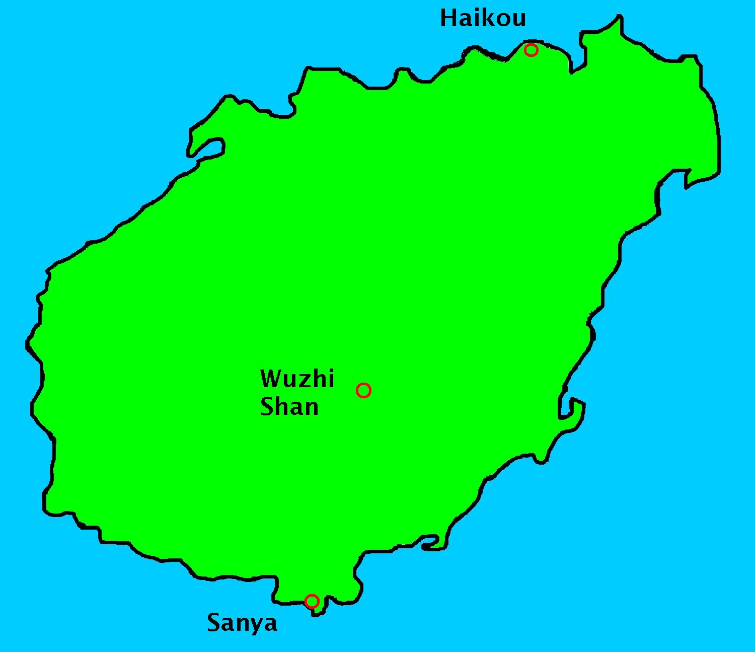 Map showing location of Wuzhi Shan (mountain), Haikou and Sanya in Hainan Province, China